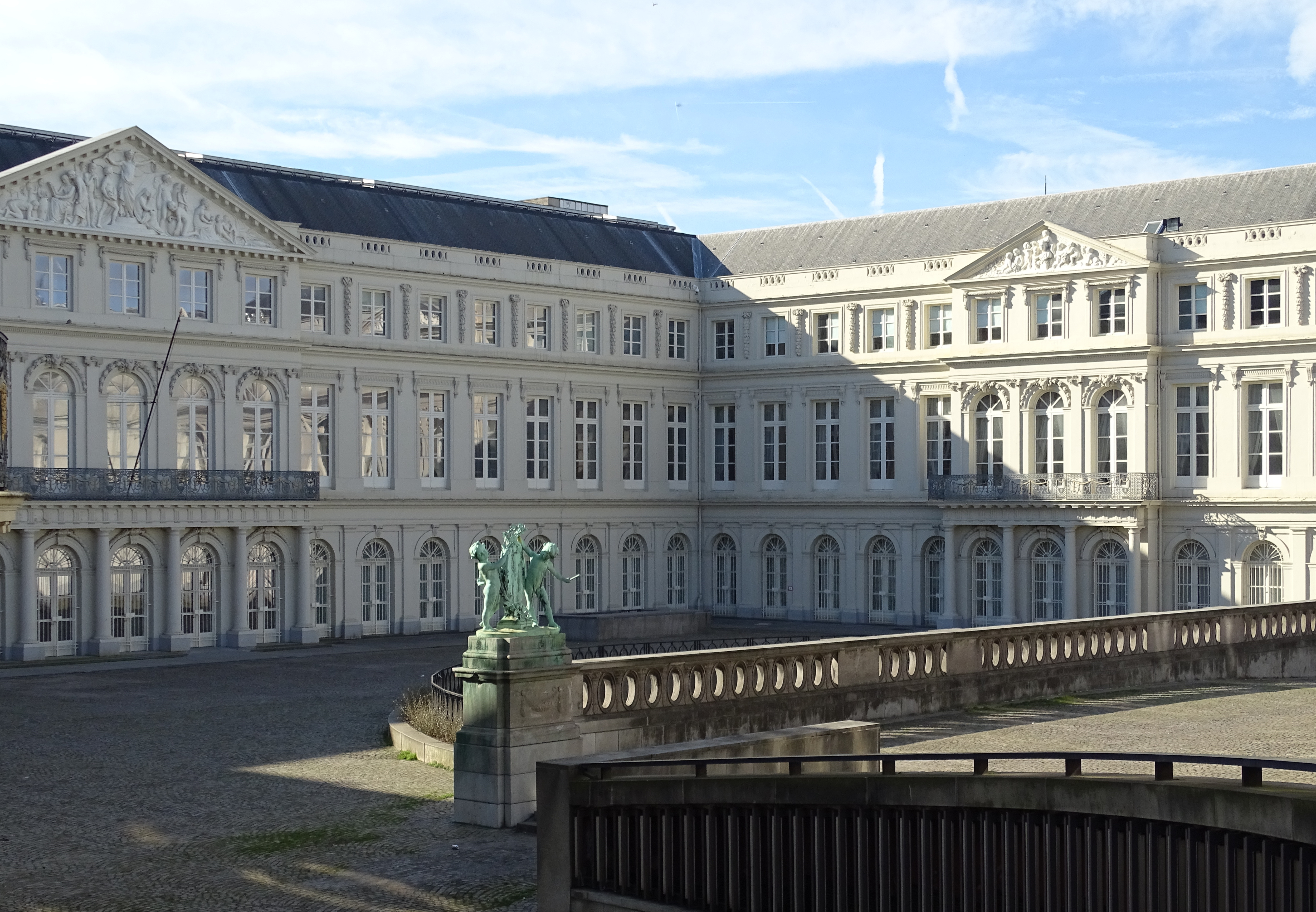 The Palace of Charles of Lorraine was the residence of Charles Alexander of Lorraine in Brussels.